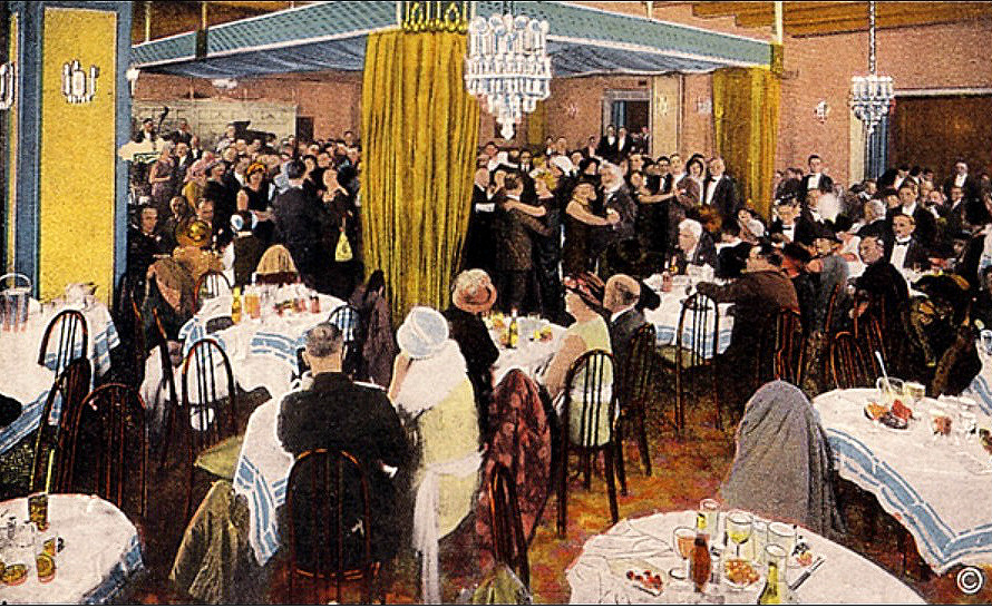 Postcard photo of the interior of the Cafe Montmartre in Hollywood.